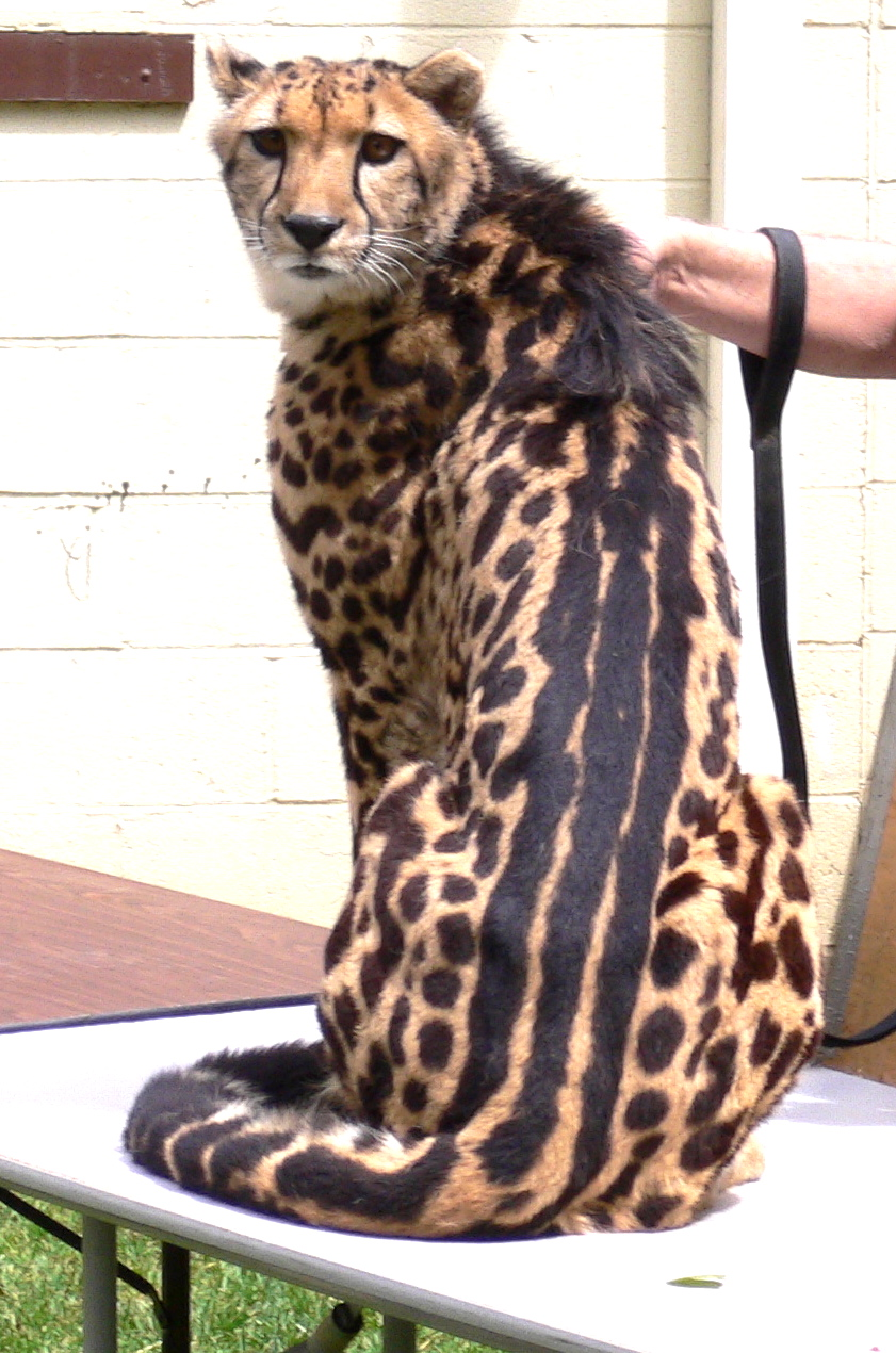 Cheeta hunting "Racing Stripes" The King Cheetah has a recessive fur pattern mutation. First discovered in Zimbabwe in 1926, this very rare animal has been seen in the wild only 6 times. About 10K years ago, the population of cheetahs plummeted, perhaps to a single pregnant female worldwide. Modern cheetahs are so genetically similar as to be virtual clones, making this novel coat pattern all the more interesting. Photo by: Steve Jurvetson